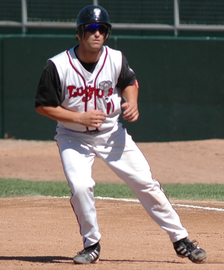 David Corrente of the Lansing Lugnuts leads off first base during a 2005 game at Cooley Law School Stadium in Lansing, Michigan